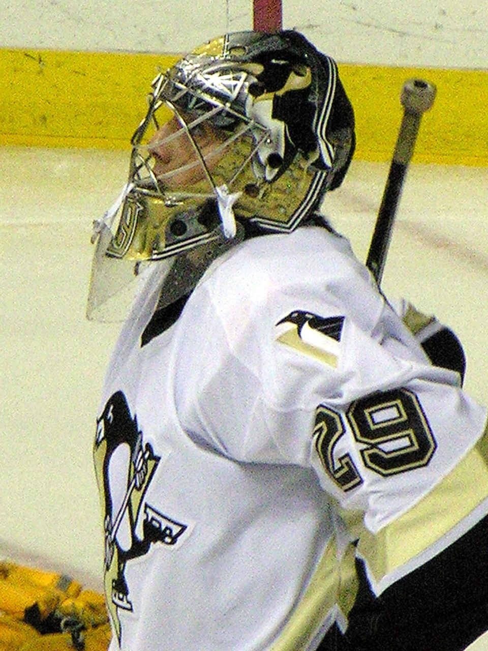 Marc-André Fleury (b. November 28, 1984 in Sorel, Quebec, Canada) is a Canadian professional ice hockey player. He is the goaltender for the Pittsburgh Penguins of the National Hockey League.